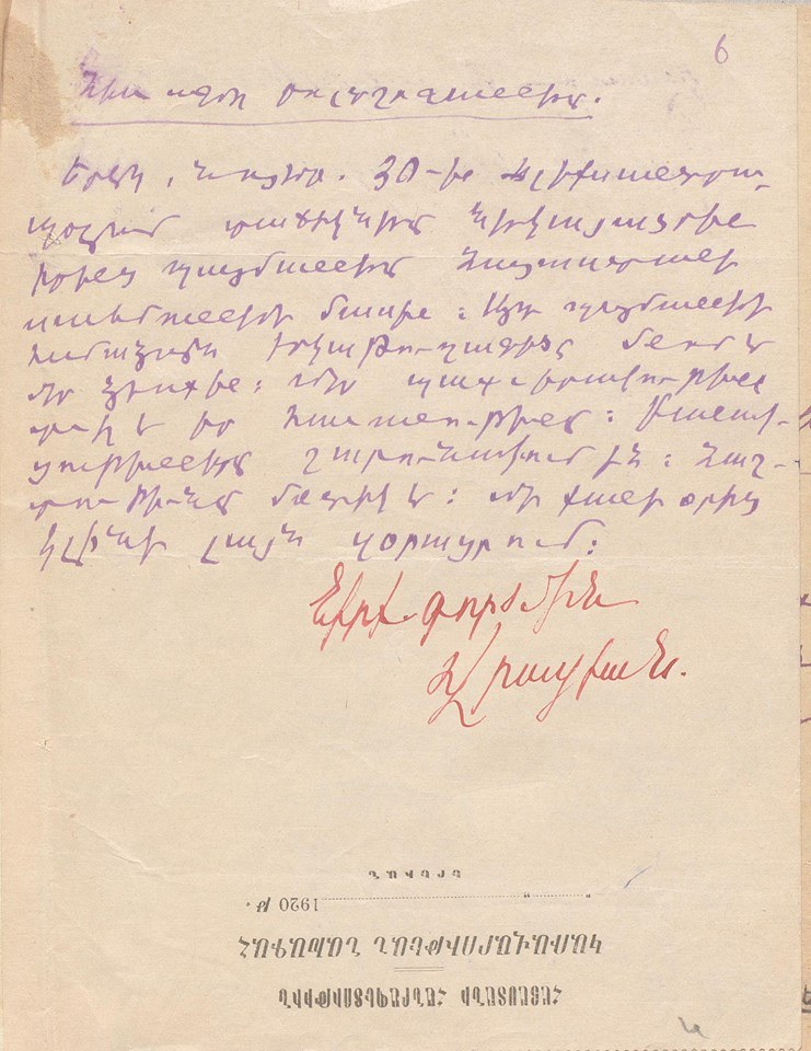 Armenia Prime Minister Simon Vratsyan script about negotiations with Turkey and future end of war